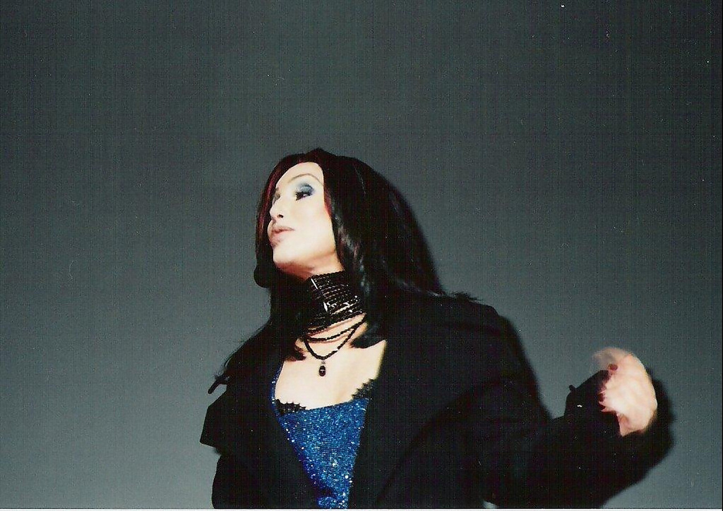 Cher performing at the WKTU-FM's Miracle on 34th Street show, at the time of her huge comeback hit Believe. This is my best shot of her.